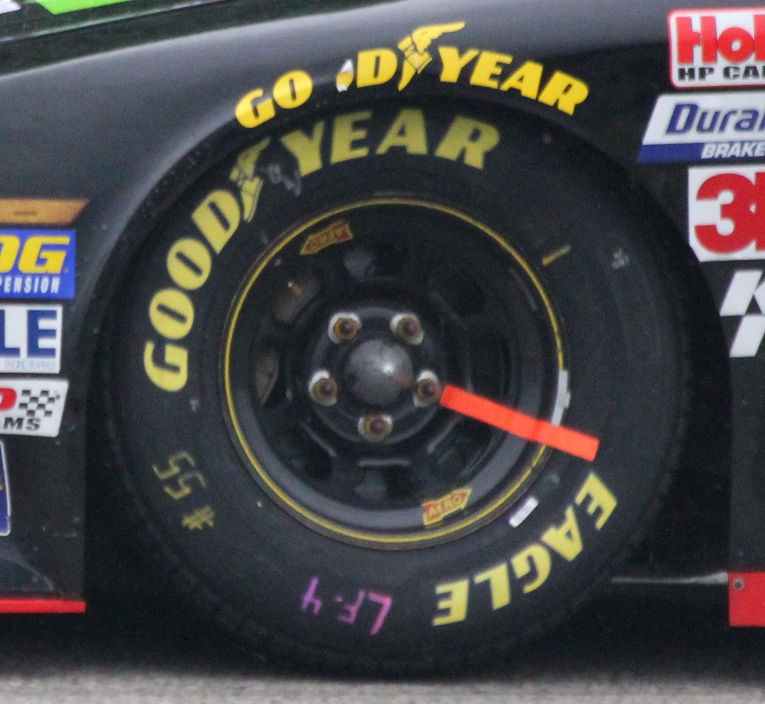 A NASCAR rain tire being used at Road America during the Gardner Denver 200.